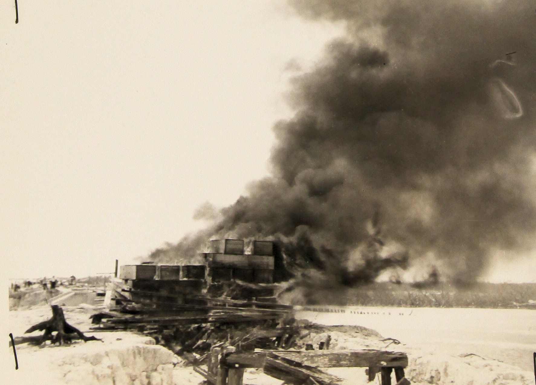 Cremation of hurricane victims, Snake Creek landing, Plantation Key, FL, Sept. 7, 1935.